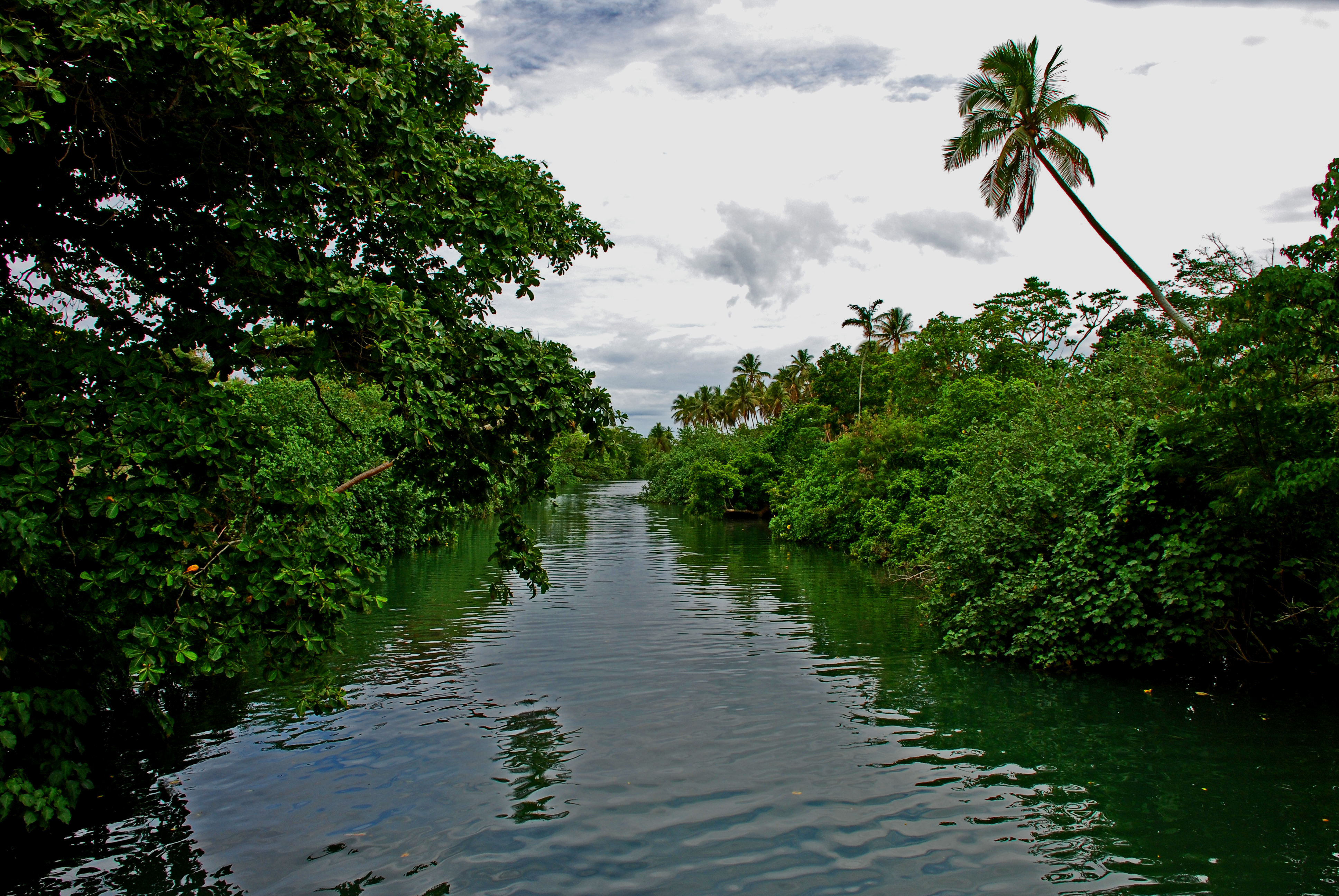 Neslep River on Éfaté Island. Around Efate trip, 26 Nov. 2006